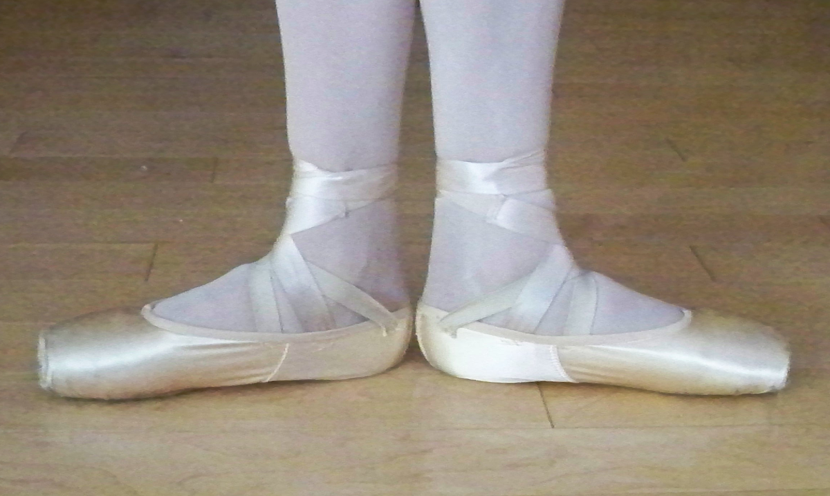 A ballet dancer demonstrating First Position.